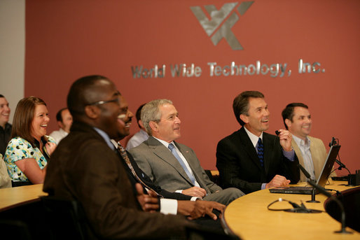 President George W. Bush, seated next to Jim Kavanaugh, right, CEO and co-founder of World Wide Technology, Inc., is shown some of the company's products during a tour of the facility Friday, May 2, 2008, in Maryland Heights, Mo. President Bush also addressed employees and invited guests on the benefit of the stimulus package for the nation's economy. White House photo by Chris Greenberg